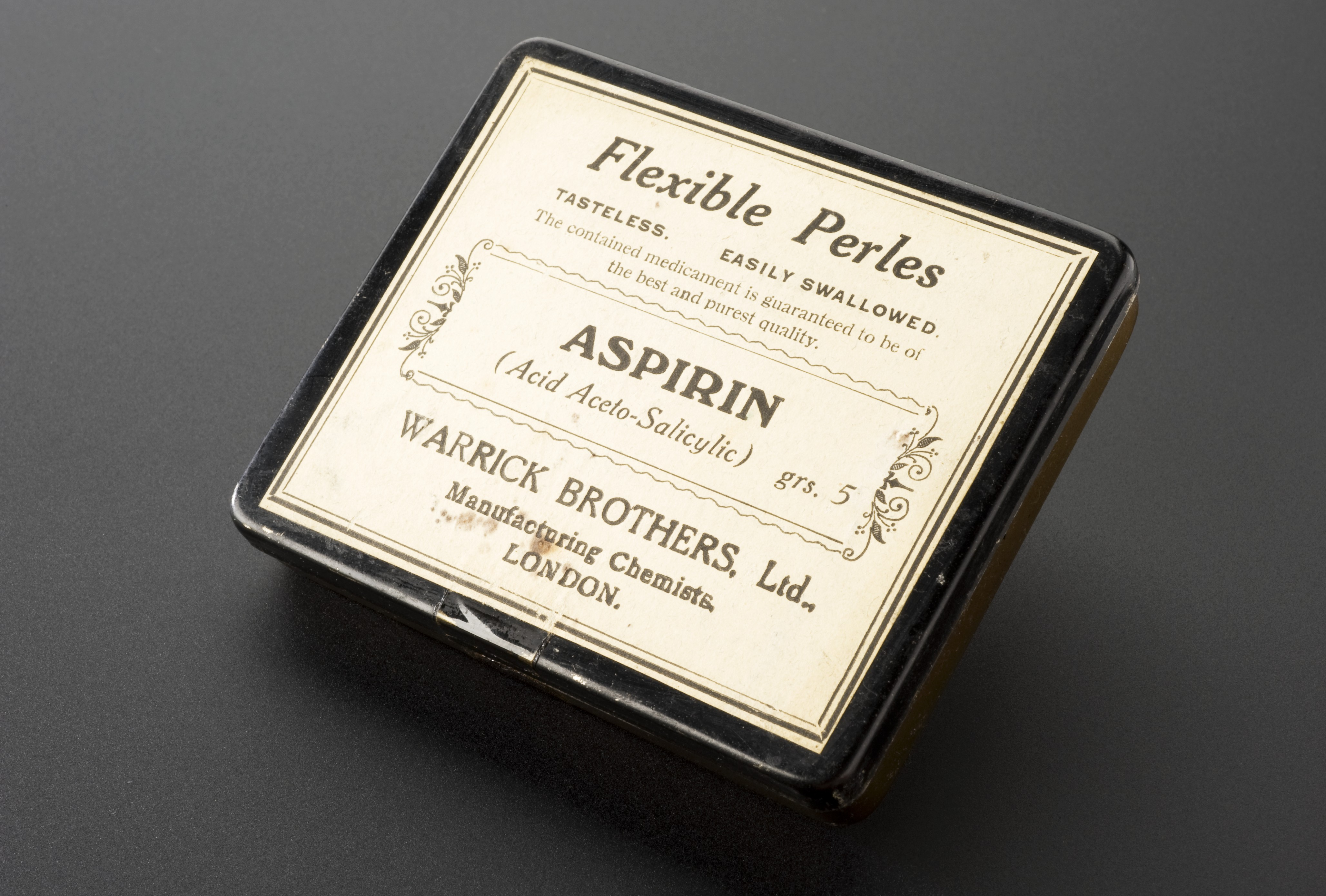 Aspirin has traditionally been taken to relieve pain and fevers and can be bought at chemists and some ordinary shops. The makers of these tablets or ‘perles’, Warrick Bros Ltd, advertised their product as tasteless and easily swallowed. Aspirin was first introduced in 1896 by the German pharmaceutical manufacturer Bayer after being discovered by one of their researchers, chemist Felix Hoffmann (1868-1946). maker: Warrick Brothers Limited Place made: London, Greater London, England, United Kingdom Wellcome Images Keywords: box - container; Tablets; tablet; Aspirin